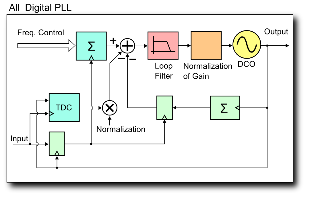 All Degital PLL block diagram #2